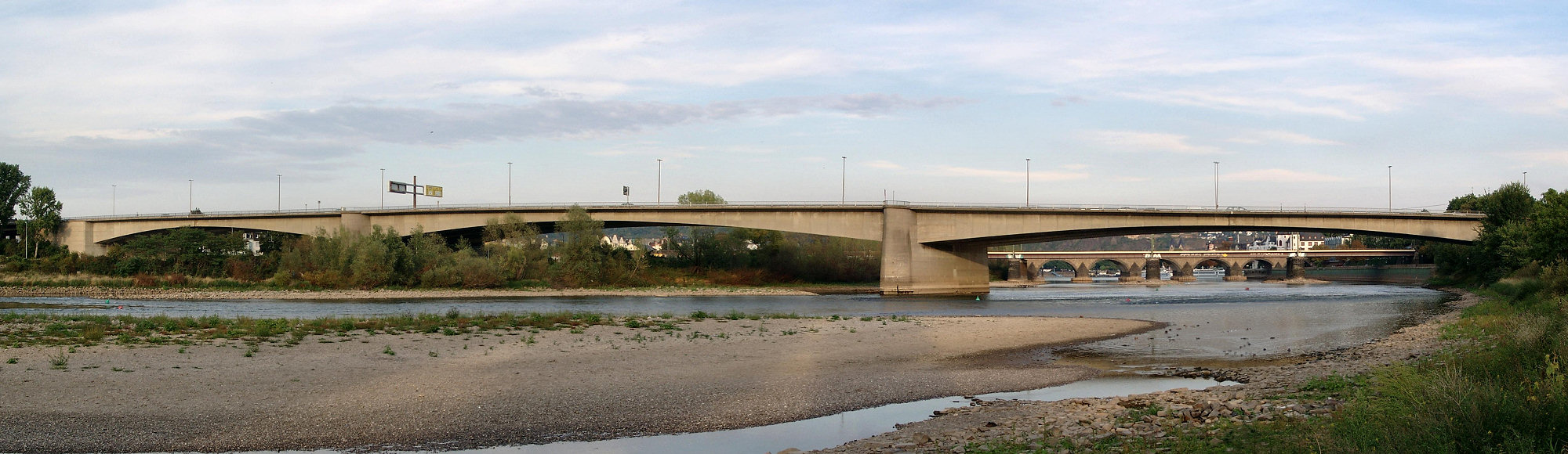 Europabrücke in Koblenz